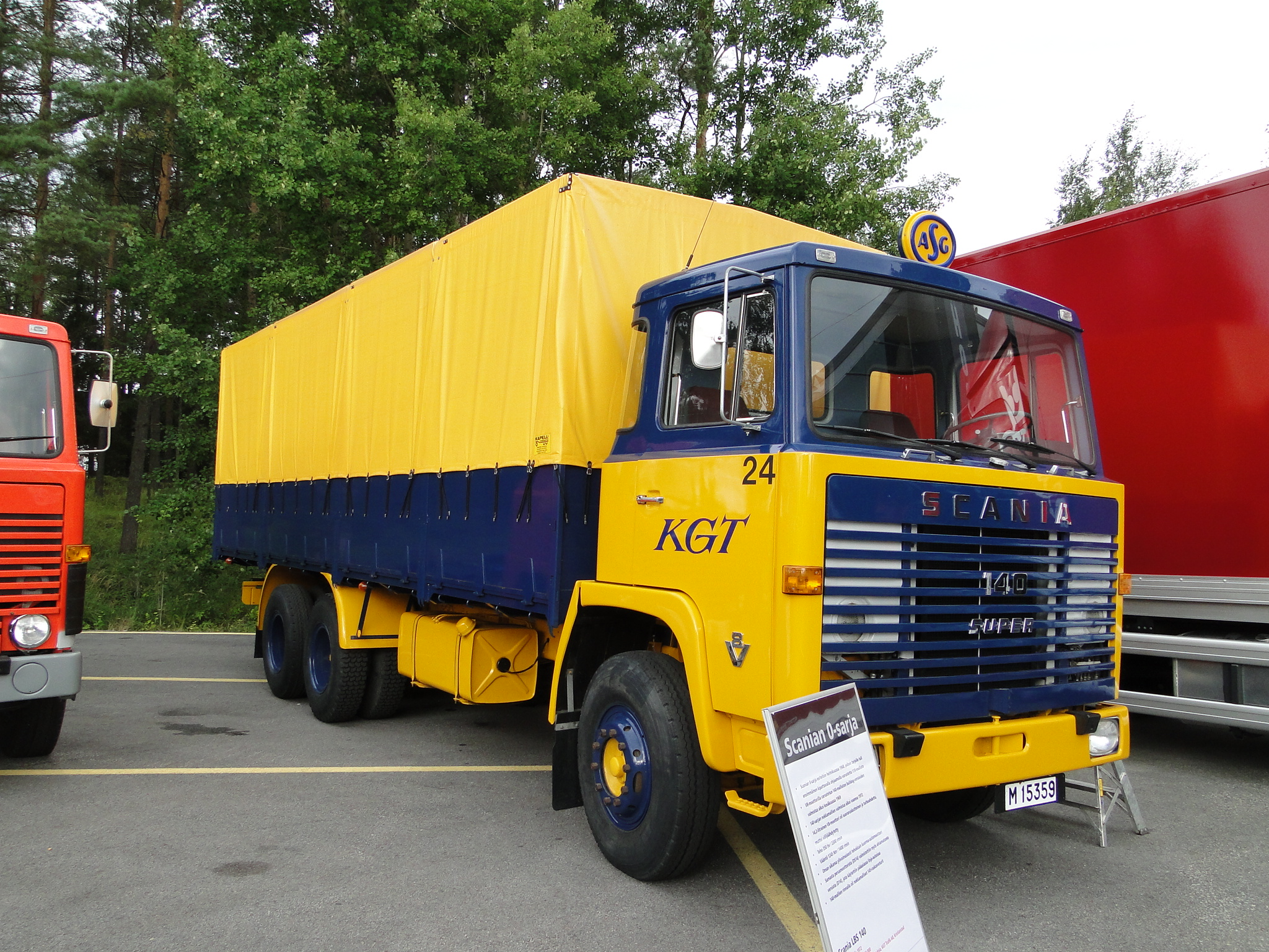 Scania LBS 140